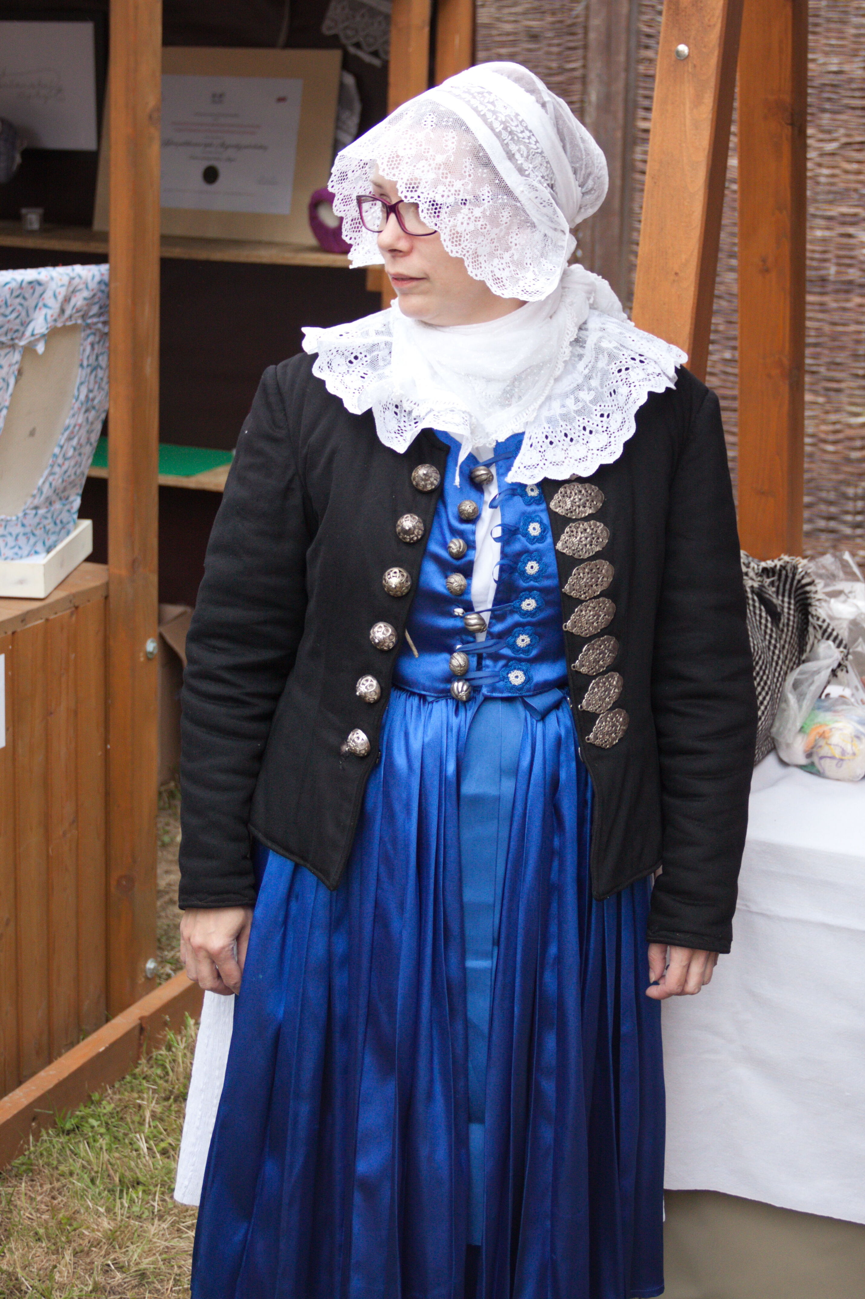 Ivana Marková bobbin lace maker from Brezov pod Bradlom in Slovakia, wearing regional folk costume. Carpathian Ethnography Project, Slovakia, third day, Myjava Festival 2017. Photo quality will be improved later.